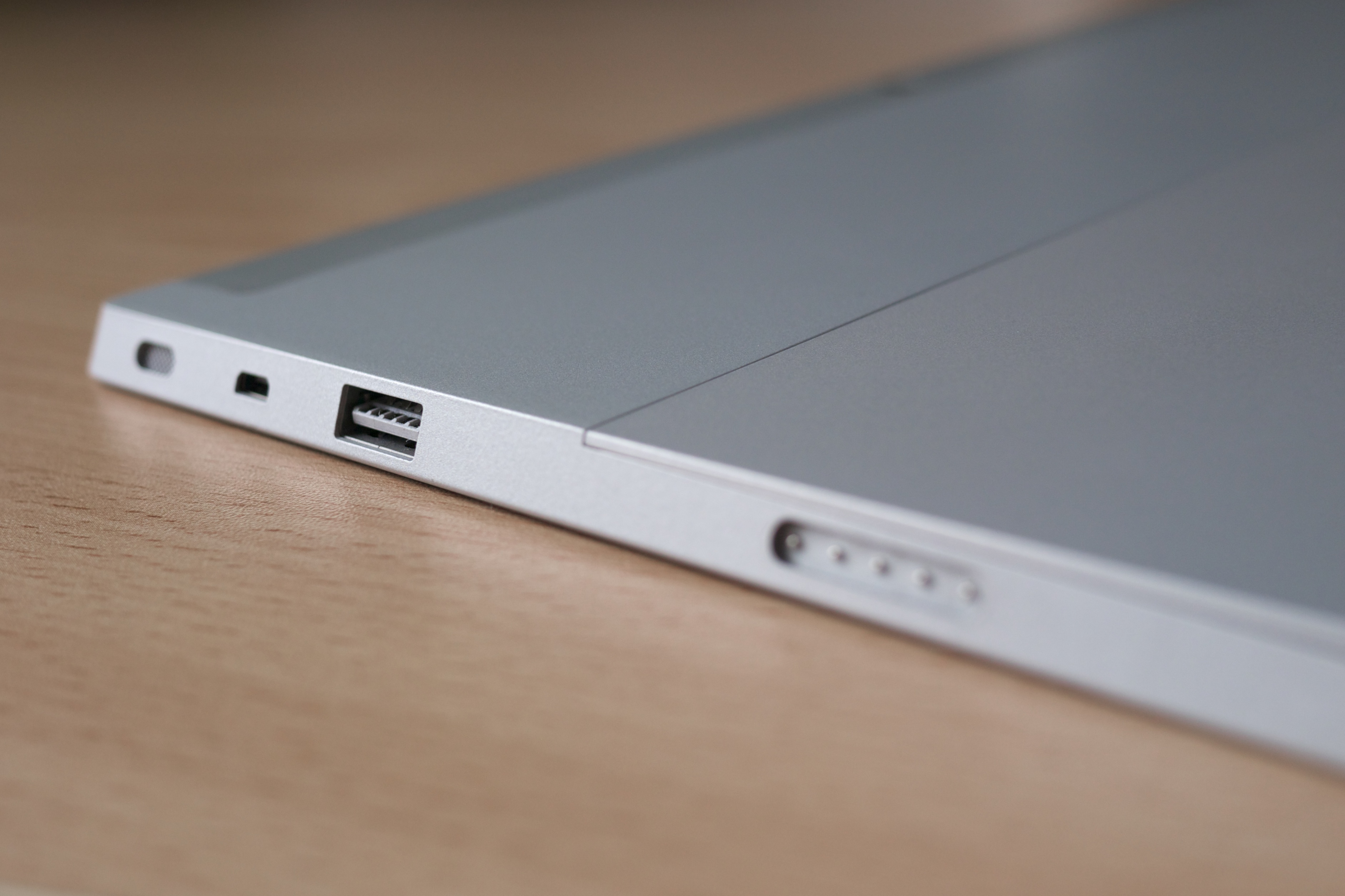 Detail on the side of the Microsoft Surface 2.